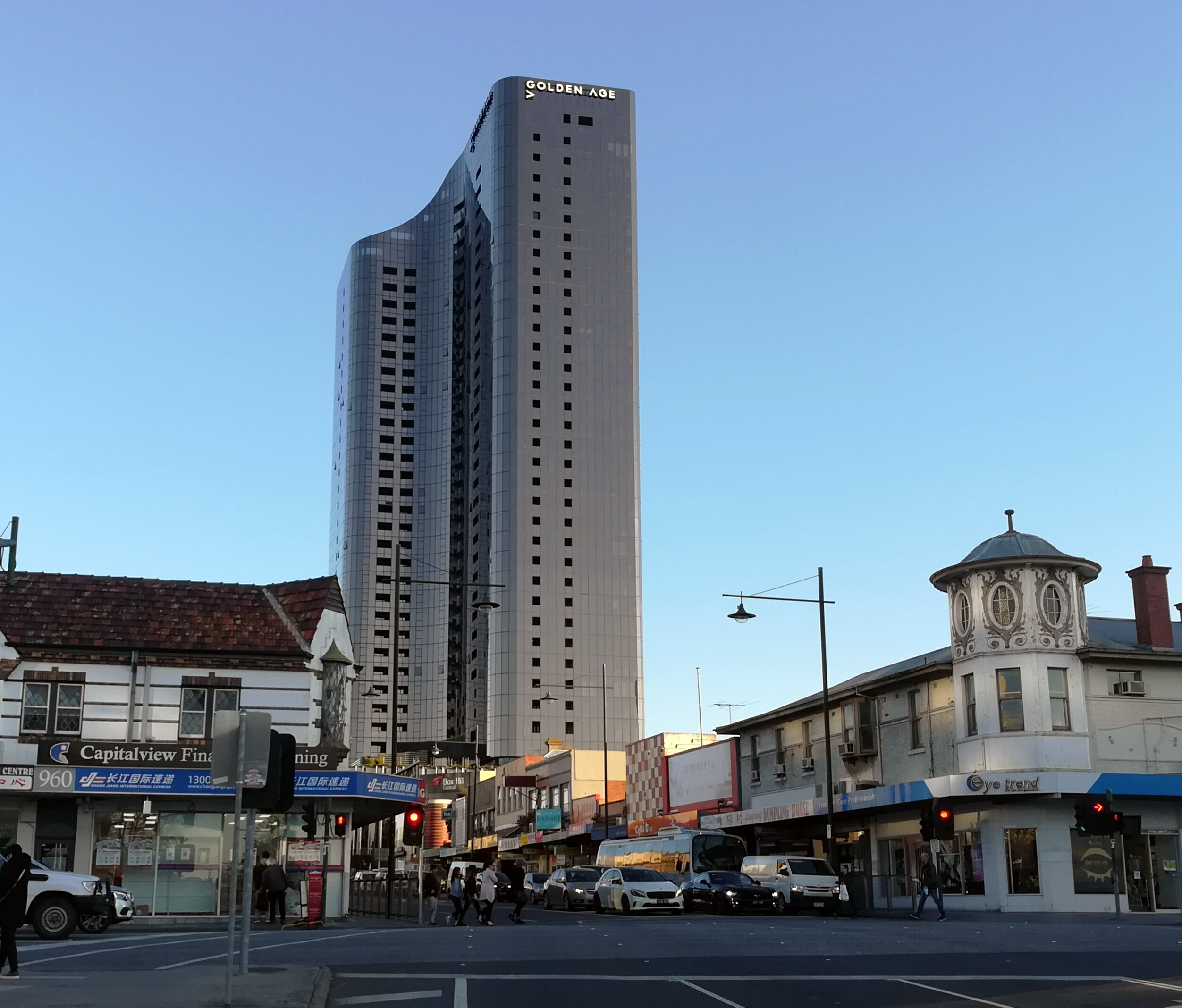 Station Street, Box Hill, Melbourne, Victoria, Australia